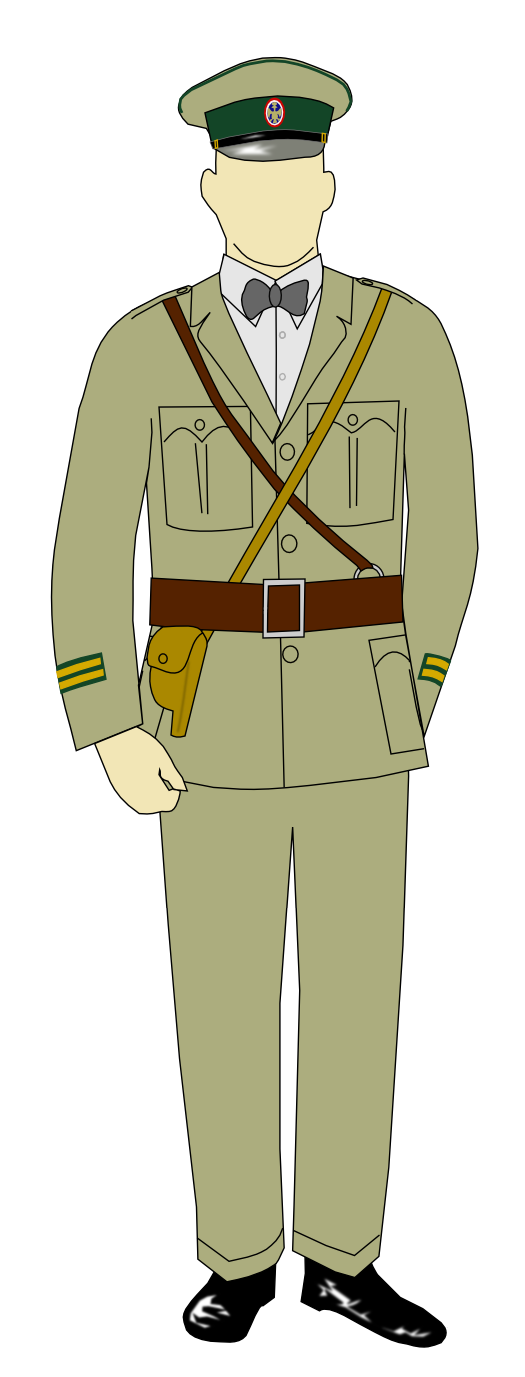 Customs officer of Kingdom of Serbians, Croats and Slovenians- in the year 1925 Based on legal prescription in official journal: Uradni list ljubljanske in mariborske oblasti št. 31, letnik VII. (27.03.1925): »Pravila o službeni obleki carinskega osebja«, str. 176-177.